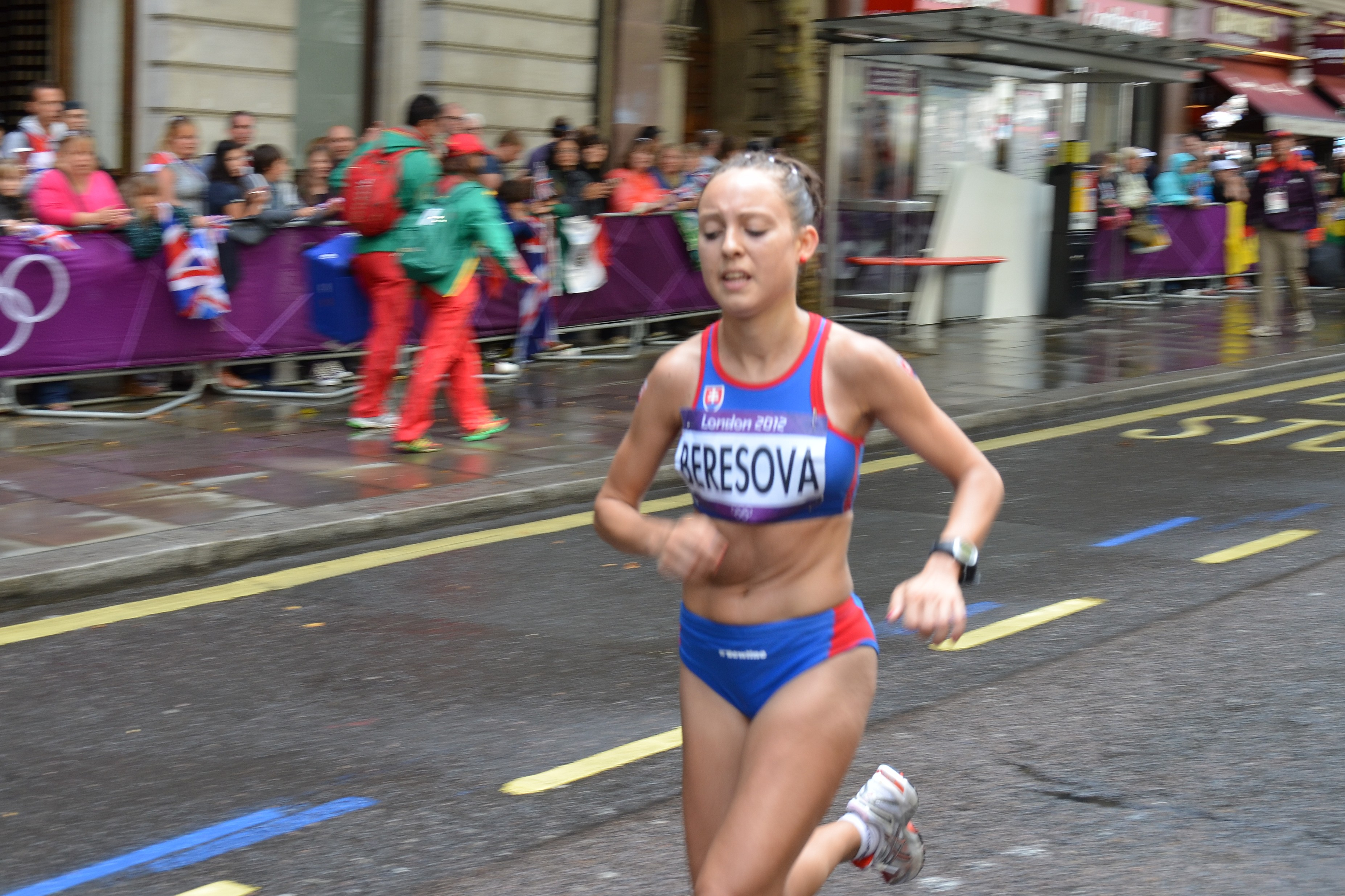 Katarina Beresova (Slovakia) in the marathon (w) at the Olympic Games 2012